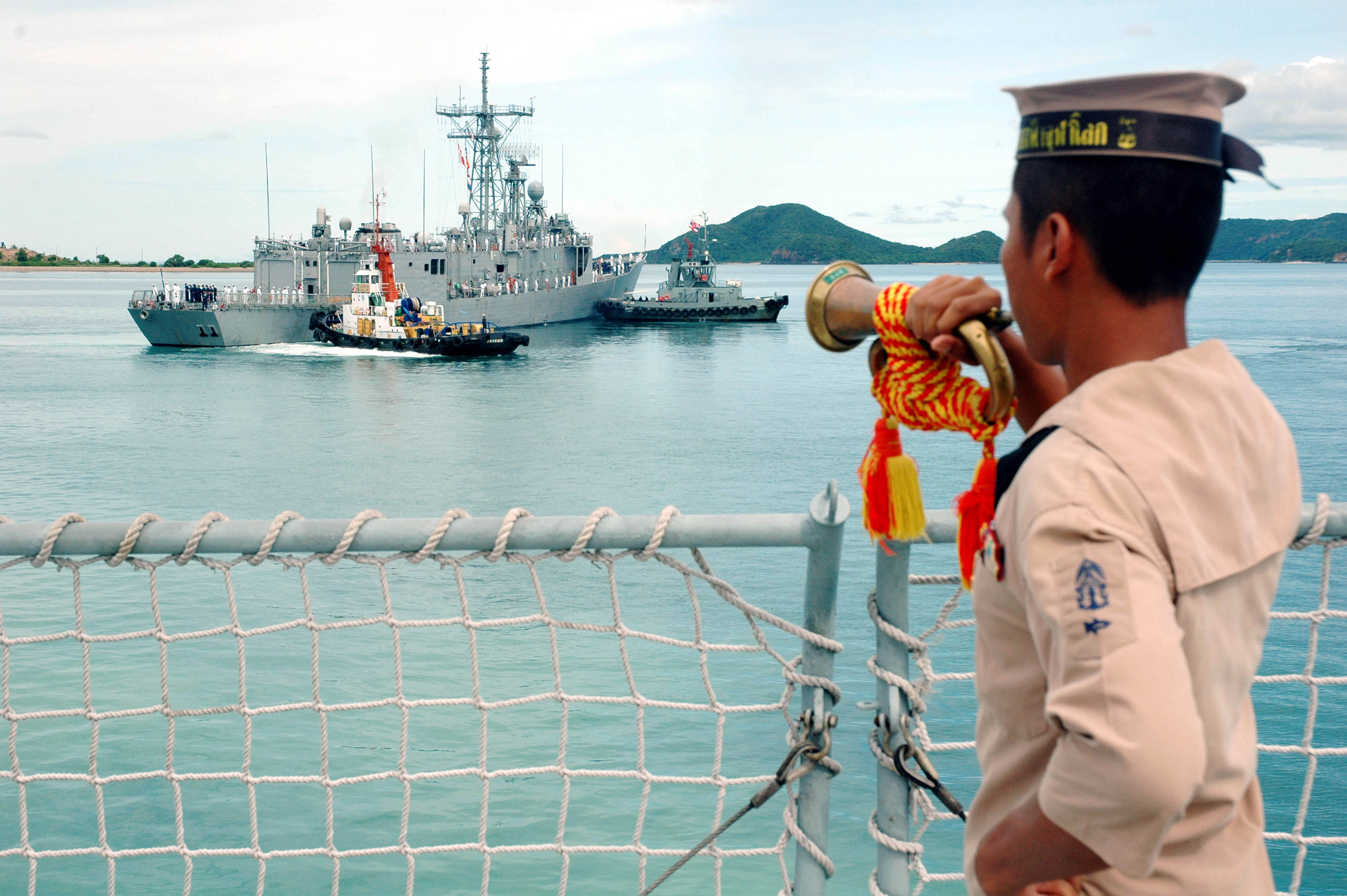 SATTIHIP, Thailand (June 18, 2007) - A crew member of the Royal Thai Navy Ship HTMS Similan (187) renders a bugle salute to the guided-missile frigate USS Jarrett (FFG 33) as it arrives in port for the Thailand phase of exercise Cooperation Afloat Readiness and Training. CARAT is a regularly scheduled series of bilateral military training exercises with several Southeast Asia nations designed to enhance interoperability of the respective sea services. U.S. Navy photo by Mass Communication Specialist 1st Class Thomas J. Brennan (RELEASED)